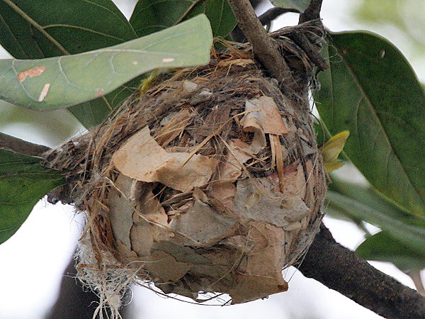 Black-hooded Oriole (Oriolus xanthornus) in Kolkata, West Bengal, India.